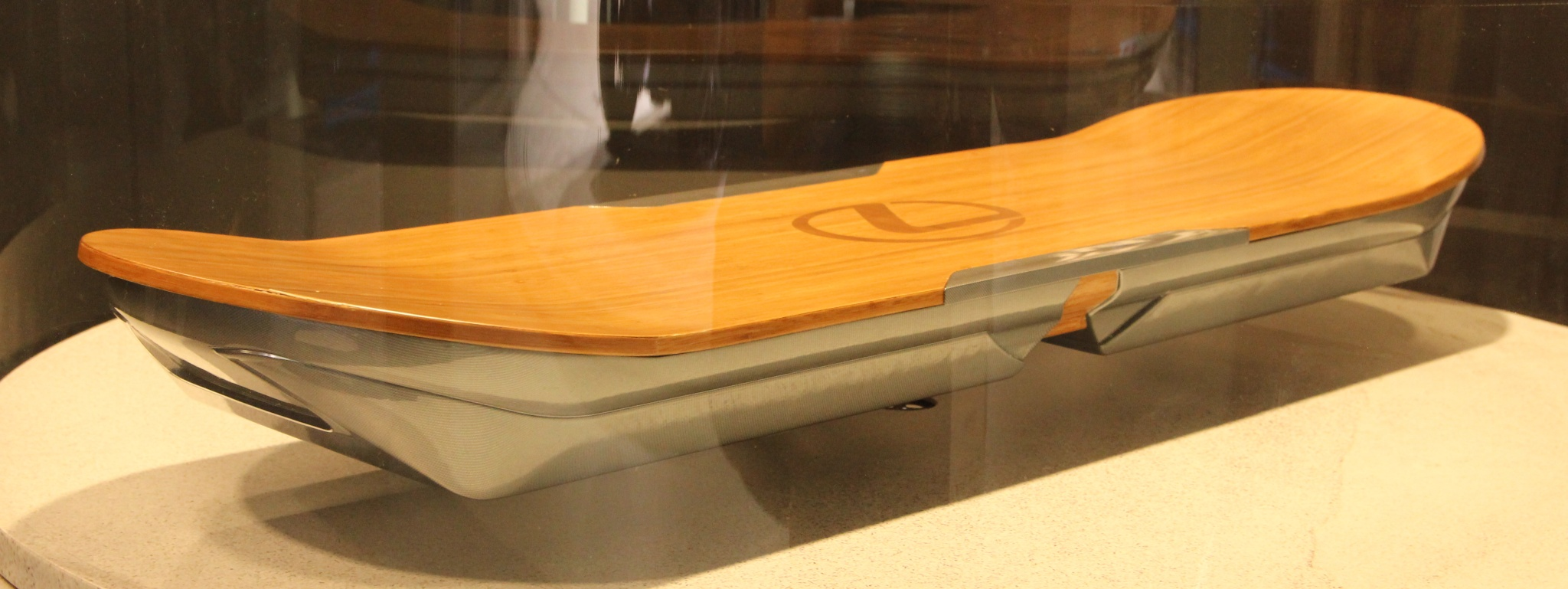 A Lexus Hoverboard mockup presented at Internationale Automobil-Ausstellung 2015 in Frankfurt, Germany